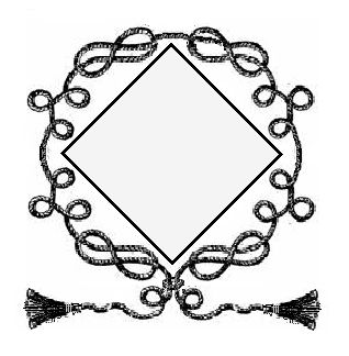 Blank lozenge surrounded by decorative cord, as used to display a woman's individual coat of arms in some heraldic traditions.